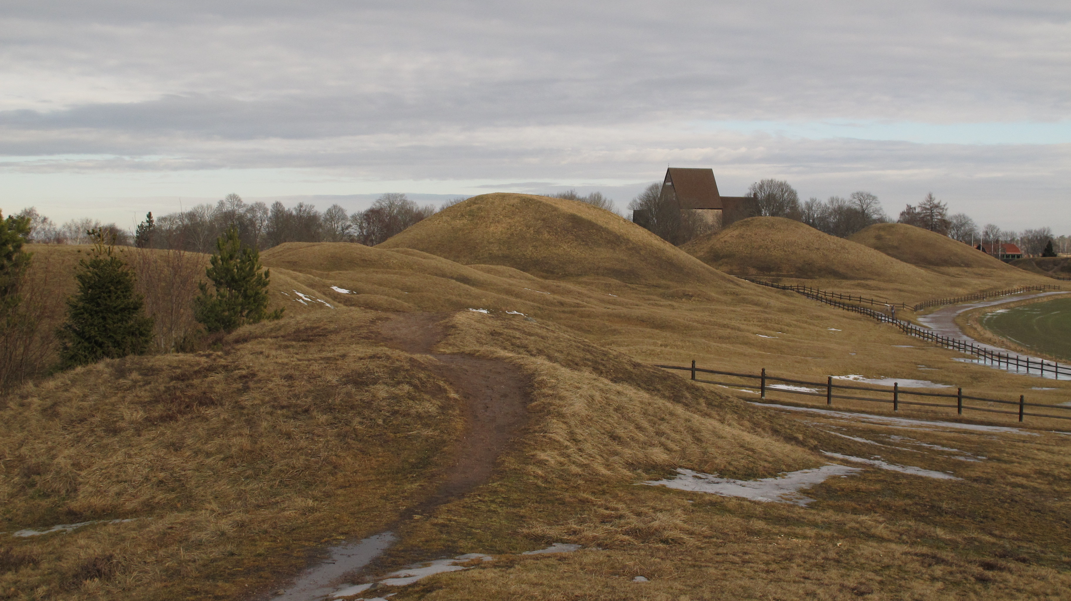 Royal mounds in Gamla Uppsala